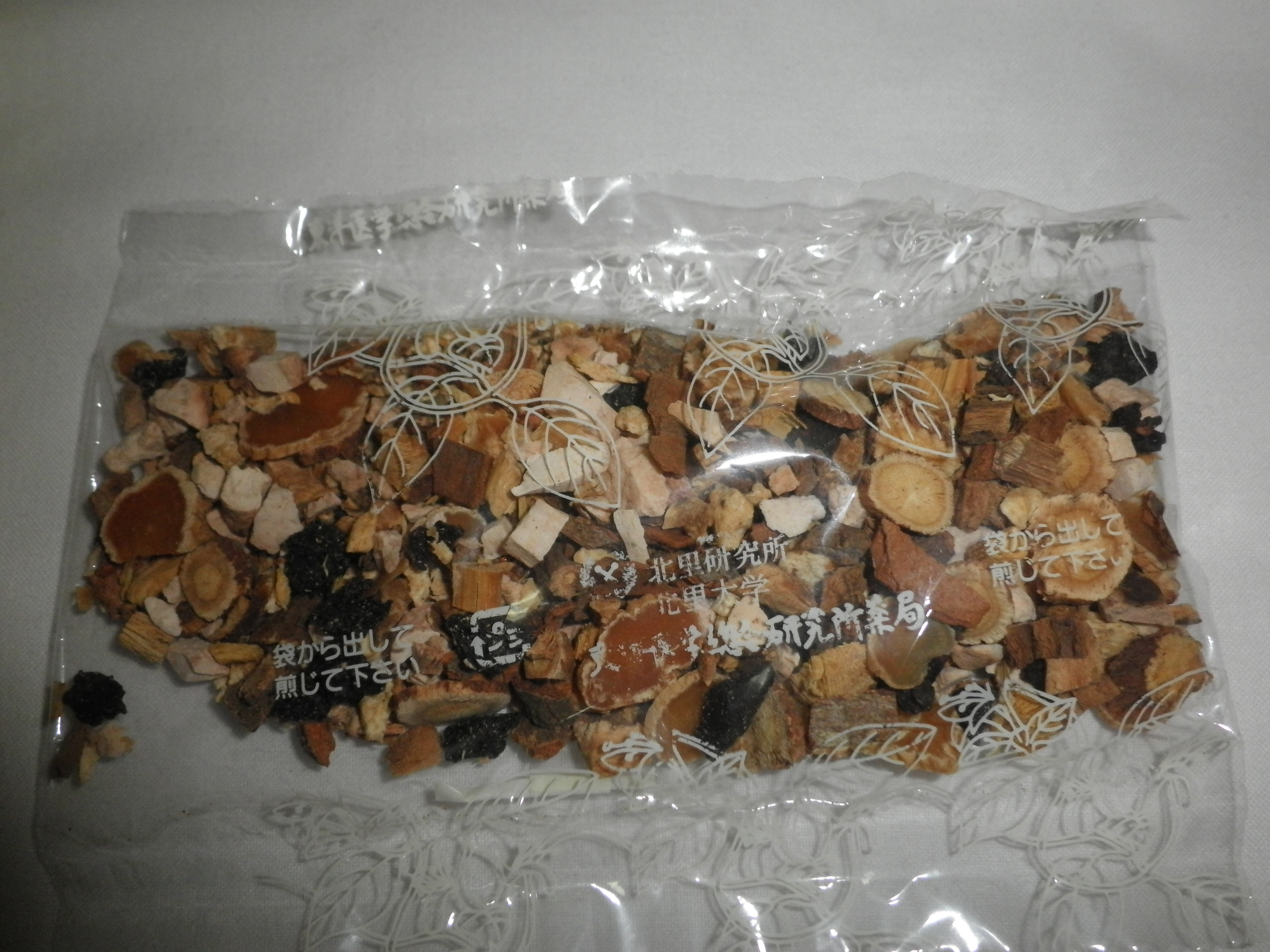 Traditional medicines of China. jyuuzendaihotou